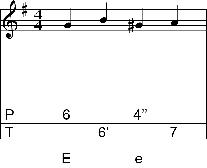 Example of the pull/push tablature system for diatonic accordion